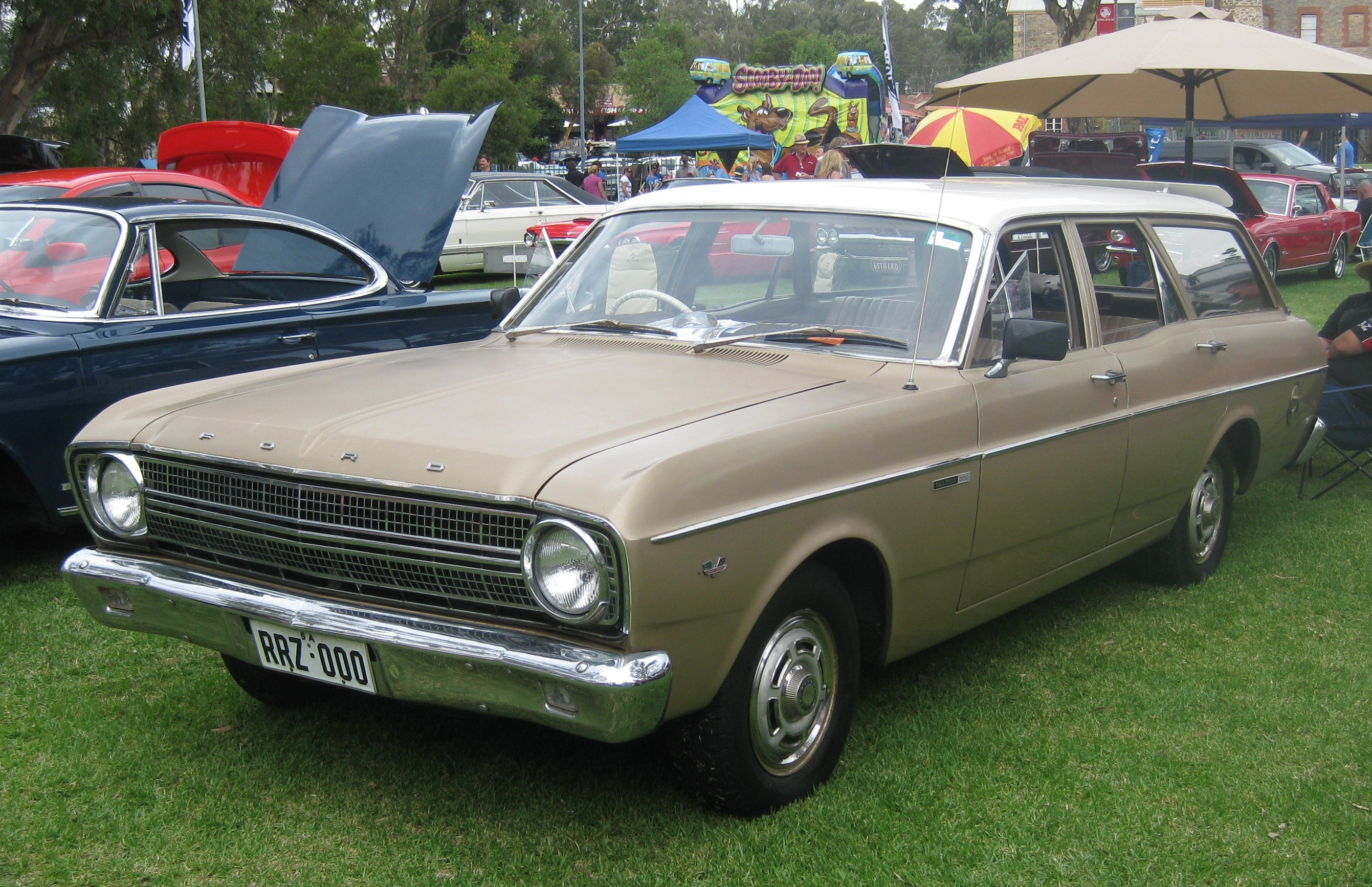 Ford XR Falcon 500 Station Wagon (1966-1968). It is fitted with "Deluxe Wheel Covers" which were optional on the XR Falcon 500 and standard on the XR Fairmont.